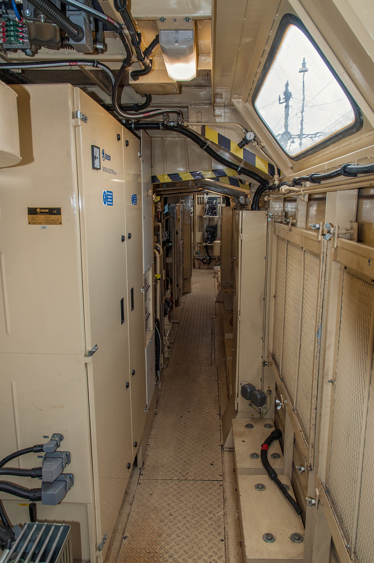 Engine room of the electrically-powered locomotive class 363.5 of ČD Cargo